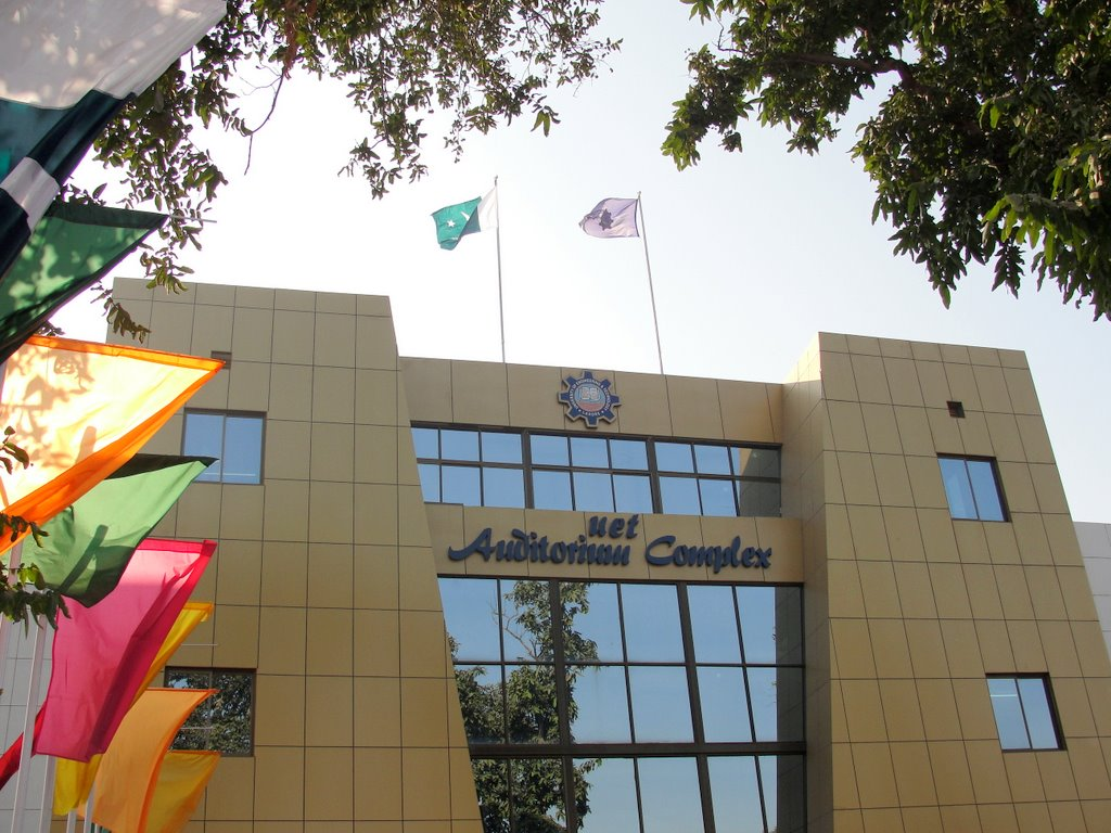 The Auditorium at UET Lahore